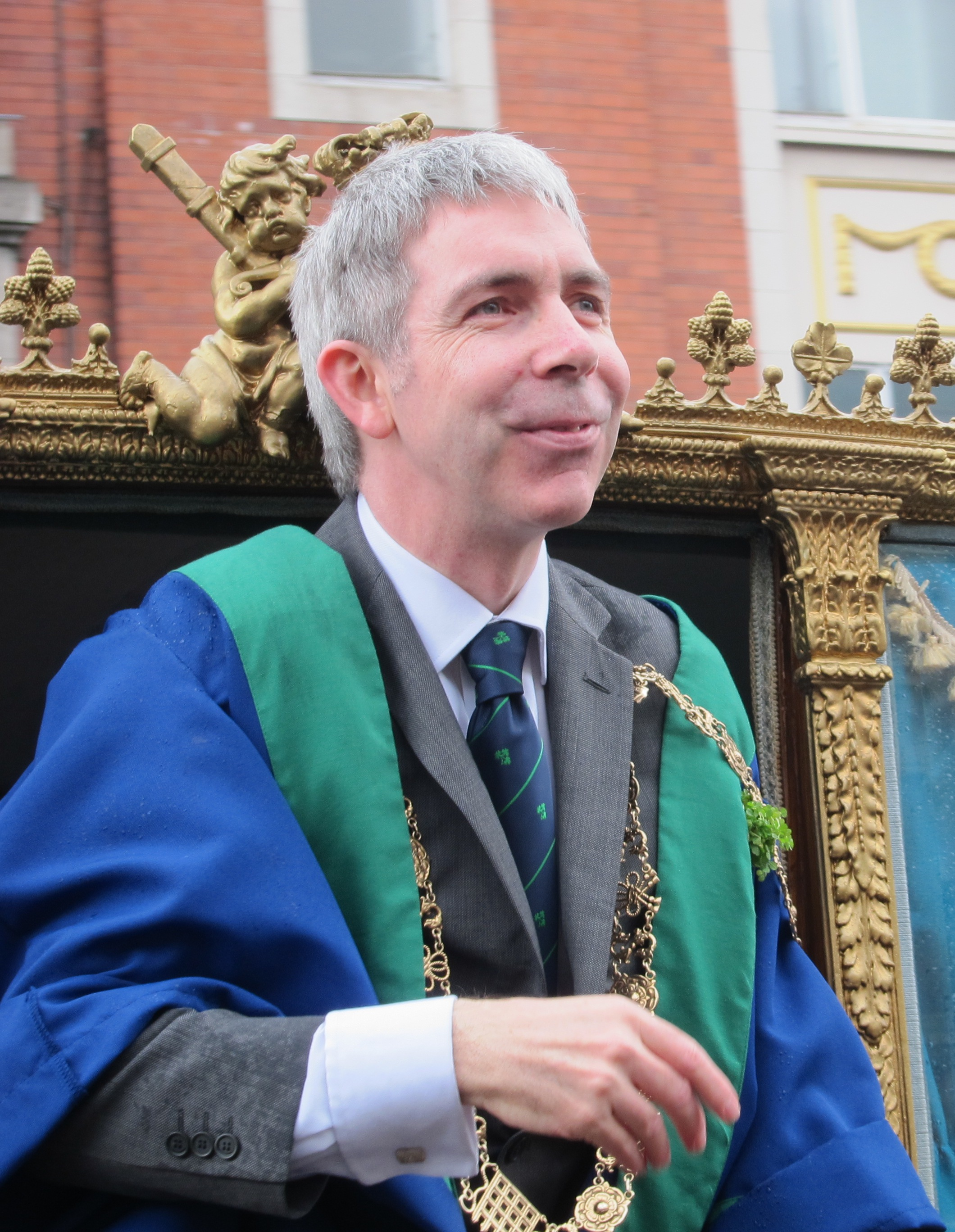 Andrew Montague, current Lord Mayor of Dublin, waving at the 2012 St. Patrick's Festival Parade.